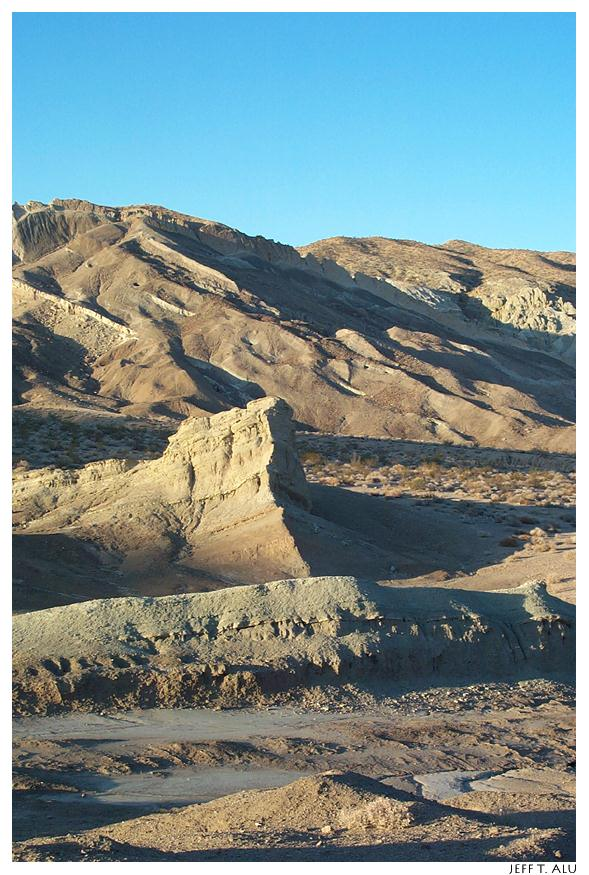 Amboy Crater, Mojave Desert